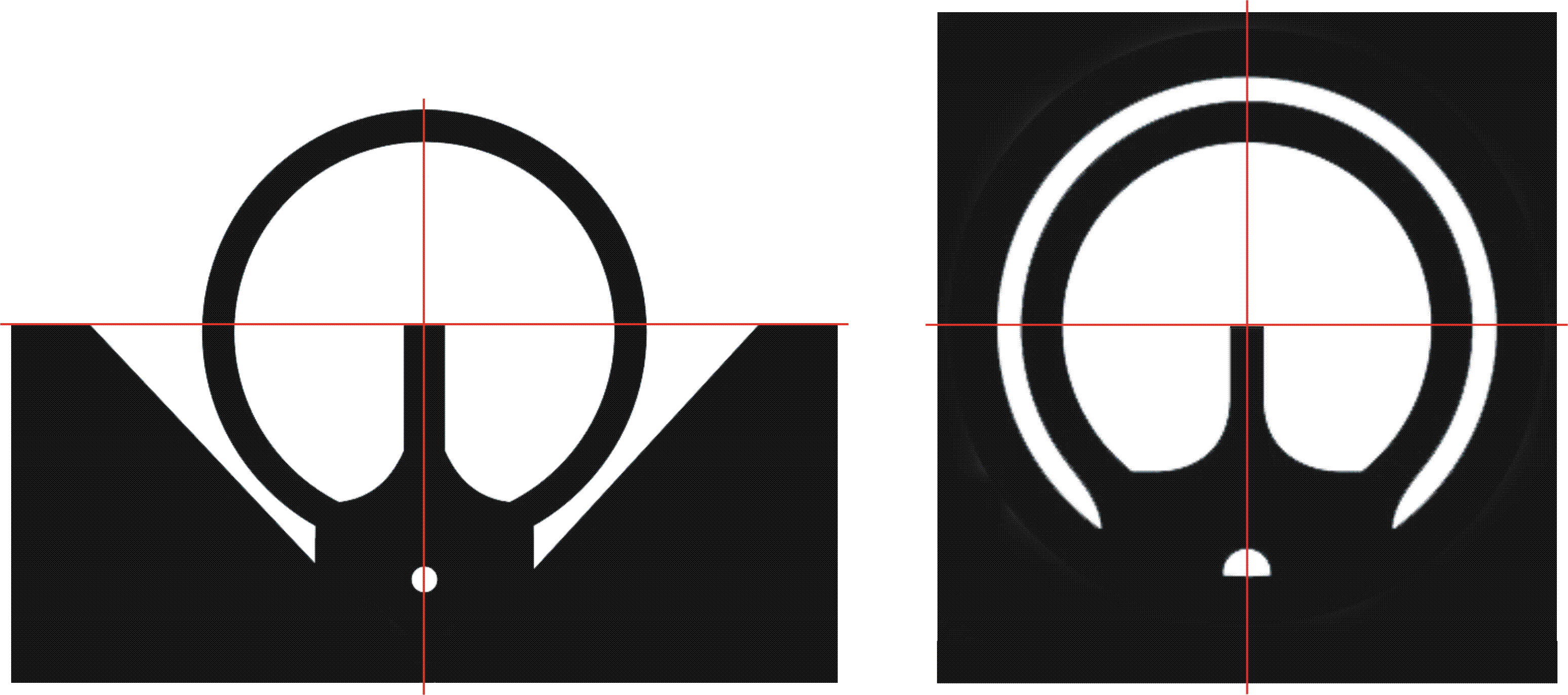 Heckler & Koch rotating drum sight line pictures. The red help lines denote how to correctly center the front post. Left; V-notch and hooded front post aligned for rapid target acquisition, close range, low light and impaired visibility use. Right; aperture and hooded front post aligned for a user selectable range setting on battle rifles or assault rifles. The rotating drum sight apertures on Heckler & Koch sub machine guns have various diameter apertures to optimize the sight line for various ambient light conditions instead of ranges. The theory of operation behind the aperture sight is often stated that the human eye will automatically center the front sight when looking through the rear aperture, thus ensuring accuracy. An additional benefit to aperture sights is that smaller apertures provide greater depth of field, making the target less blurry when focusing on the front sight.